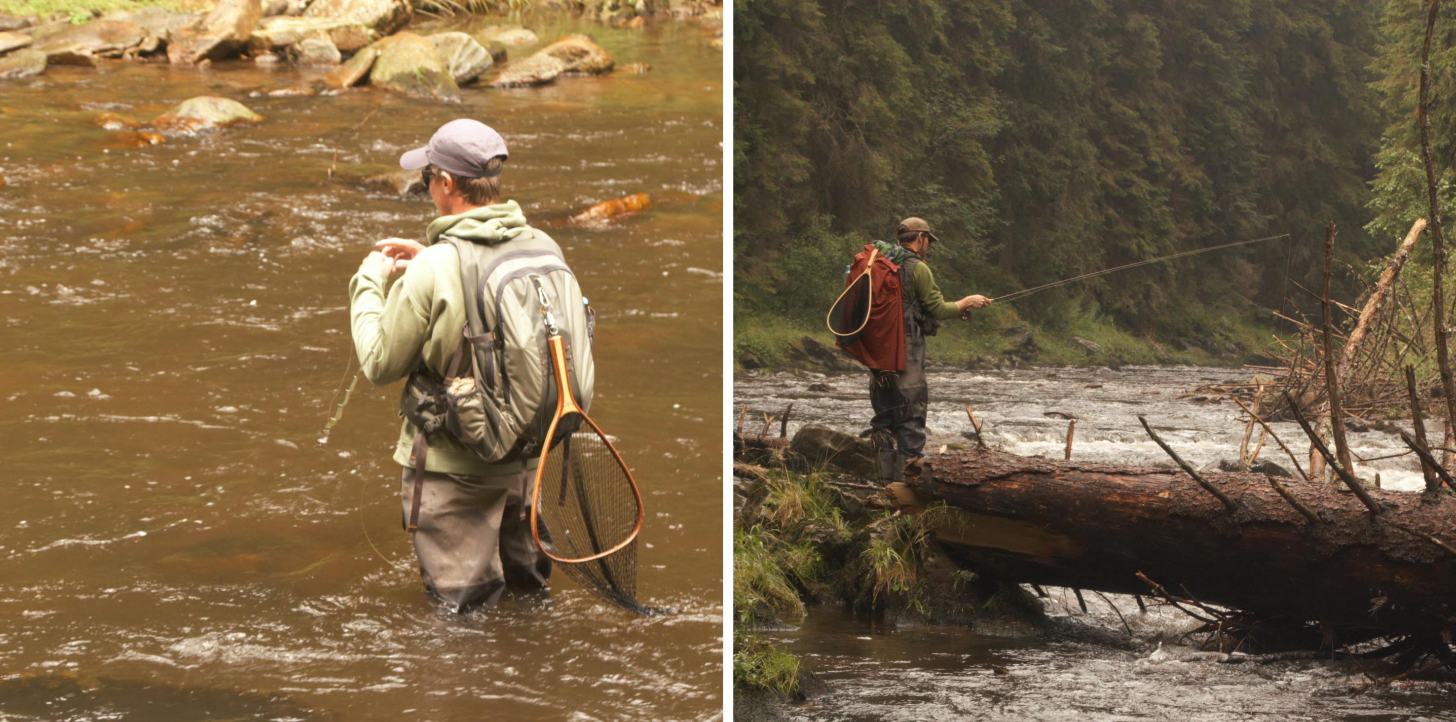 Page 5